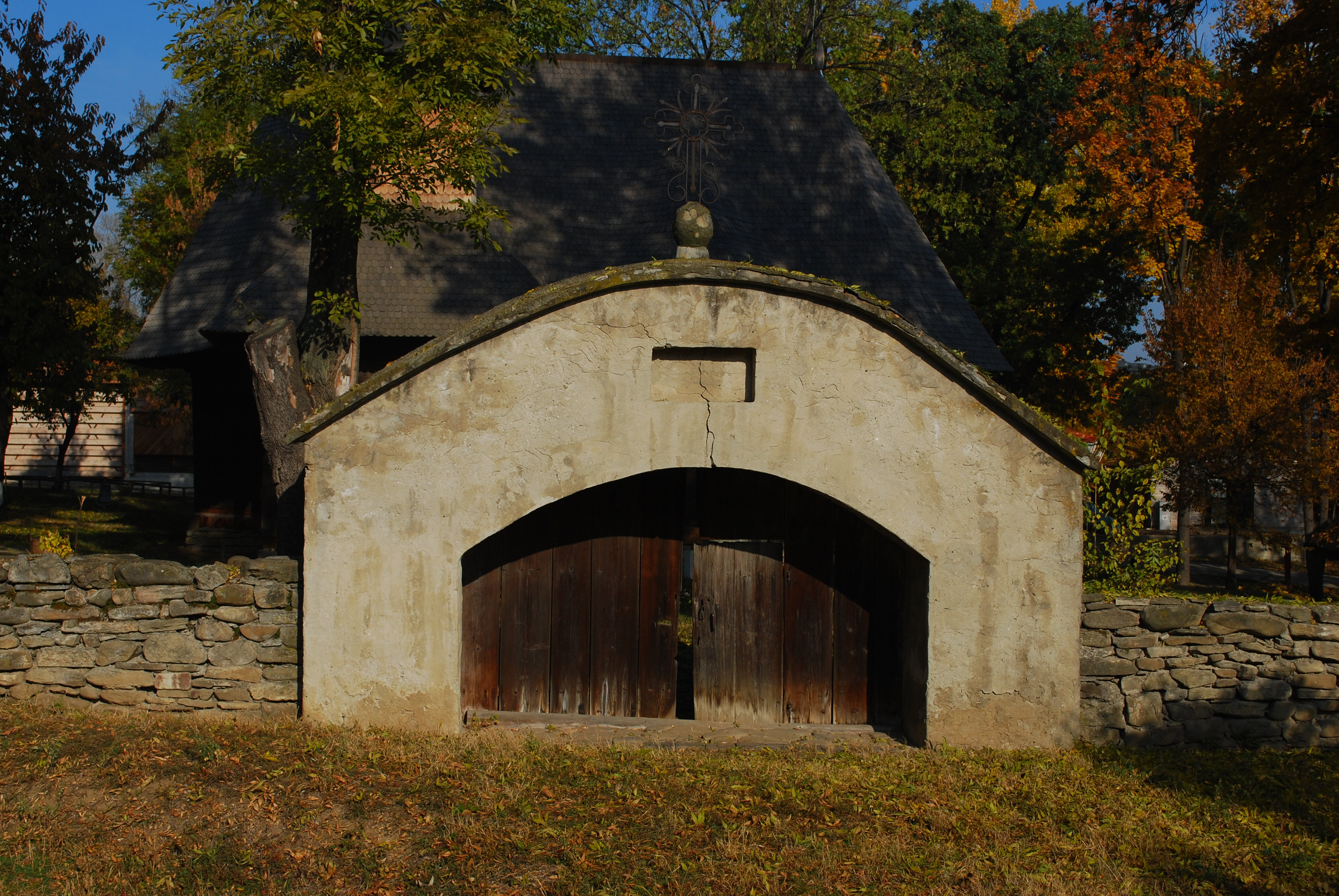 1773 church from Răpciuni, Neamţ County, Romania, exhibited in the Village Museum in Bucharest. The gateRomână: Biserica din 1773 din Răpciuni, judeţul Neamţ, România, expusă la Muzeul Satului din Bucureşti. Poarta.